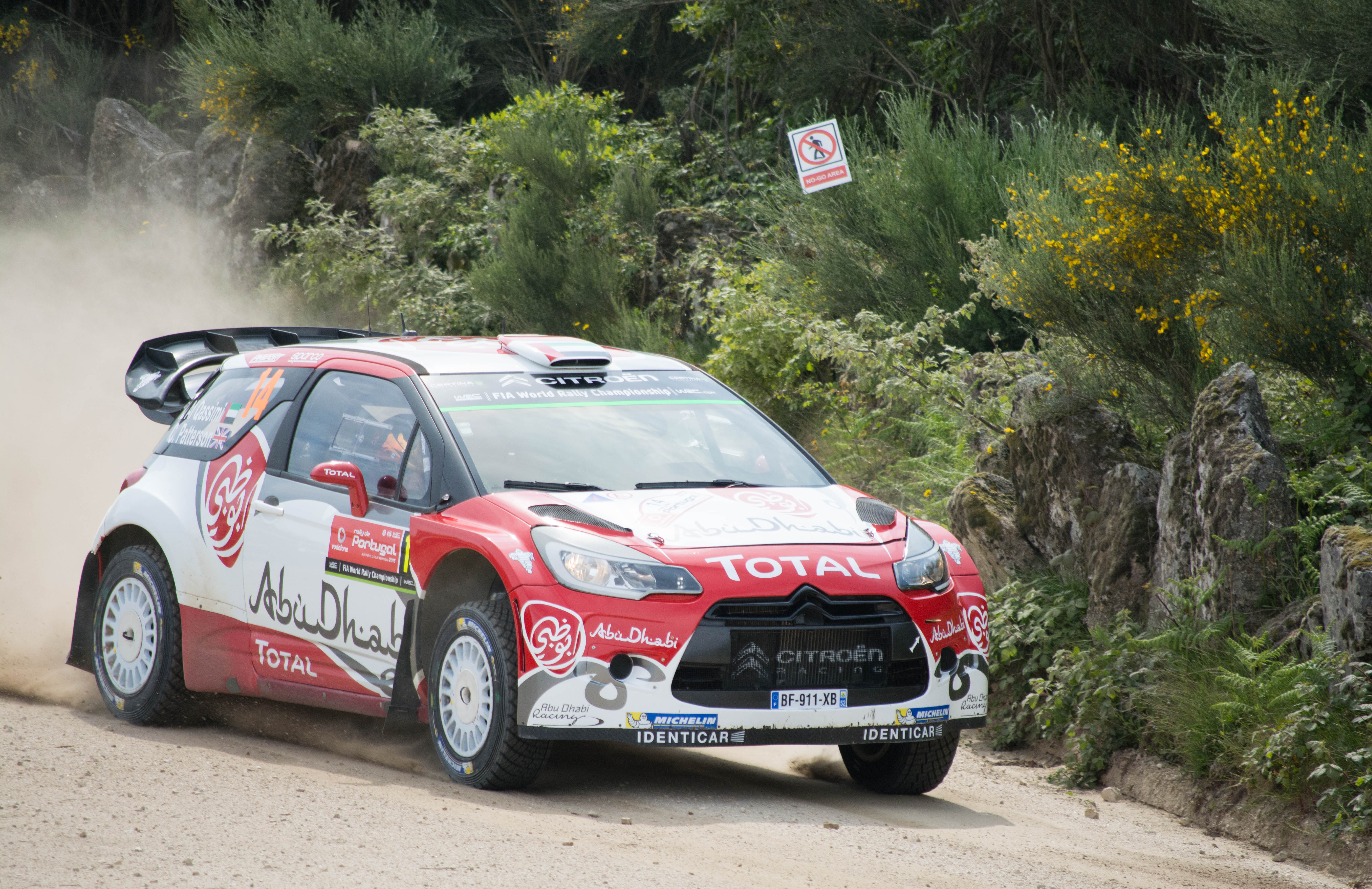 Rally of Portugal 2016. Section of "Baião", on the first pass